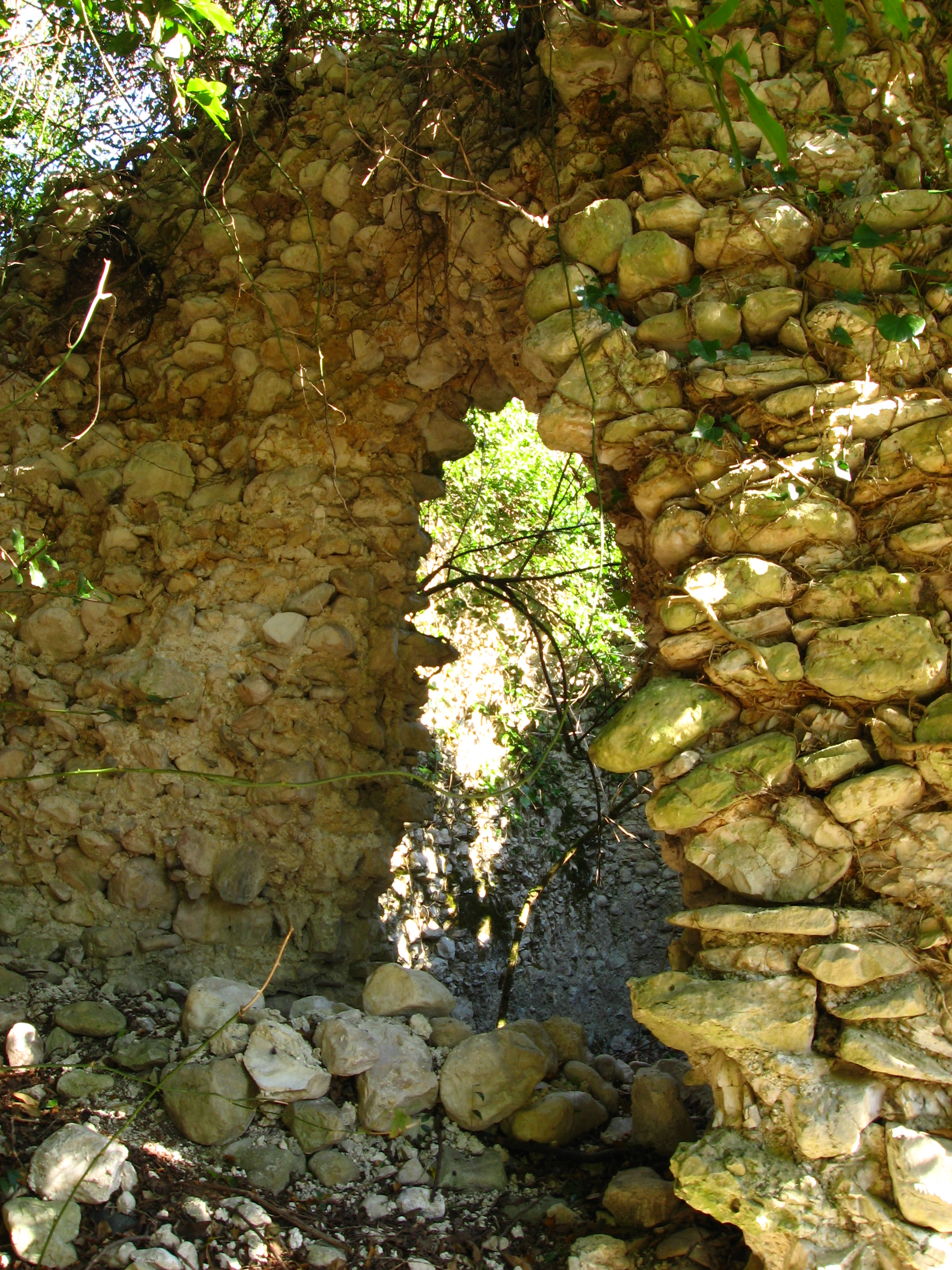 A detail of the Great Abkhazian Wall (most likely a door, or maybe an embrasure)